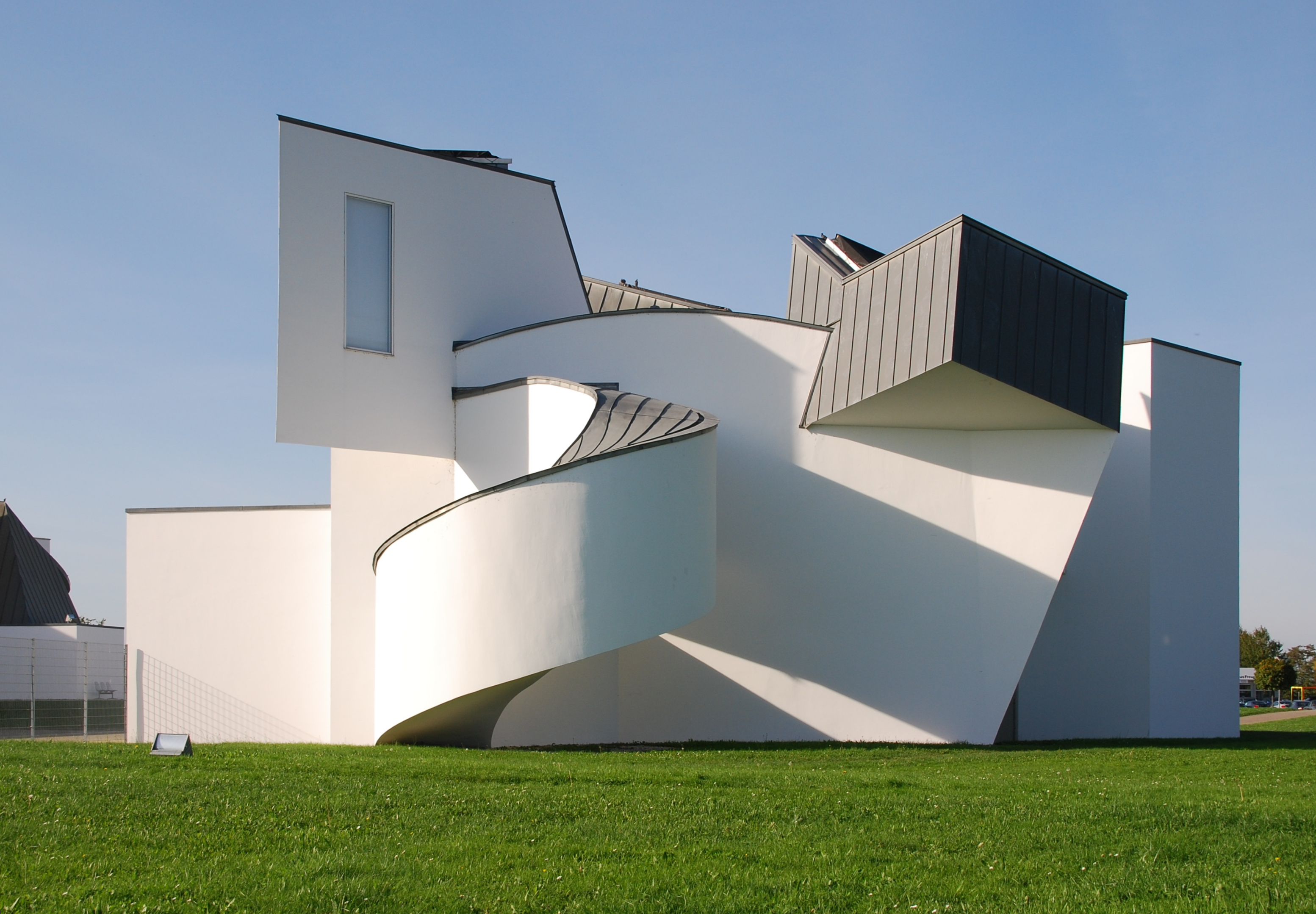 Weil am Rhein: Vitra Design Museum from east side